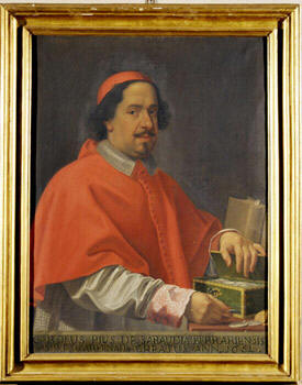 Cardinal Carlo Pio di Savoia (1622-1689)